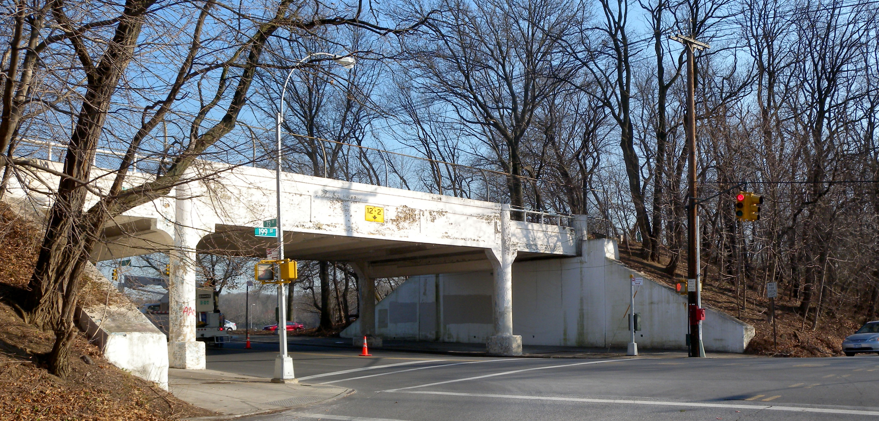 Looking southeast across 73rd Avenue and 199th Street at BQG bridge on a sunny afternoon.